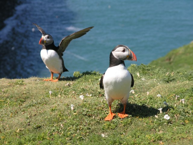 Puffins on the Wick Undoubtedly, Skomer's most famous seasonal resident - the puffin, sometimes nicknamed the "Pembrokeshire Penguin" can be seen on the island from April to mid-late June - but most would agree that the last few days of May are the best time to see these animated characters - just after the chicks have hatched in their burrows.